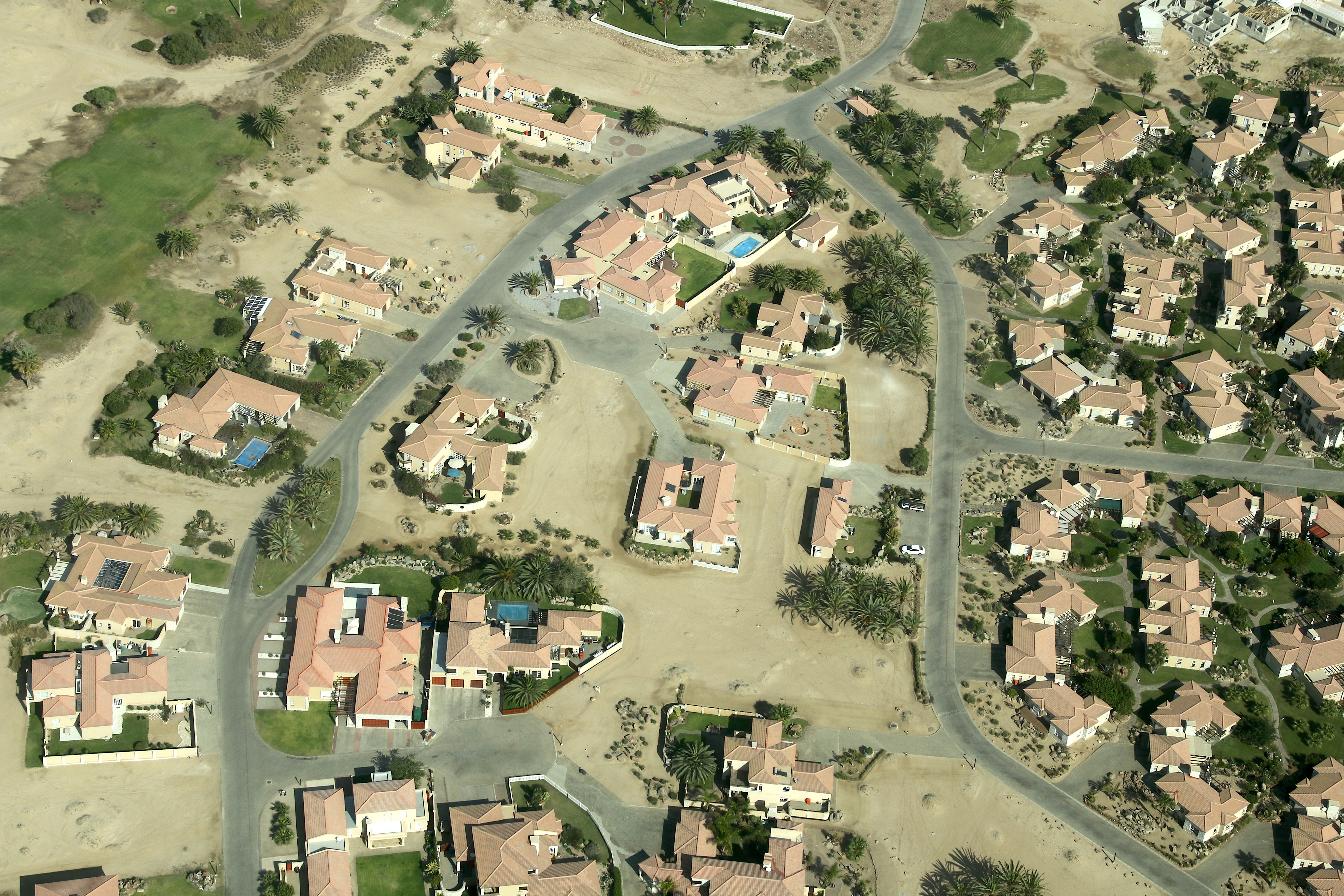 Aerial view Swakopmund (2018)